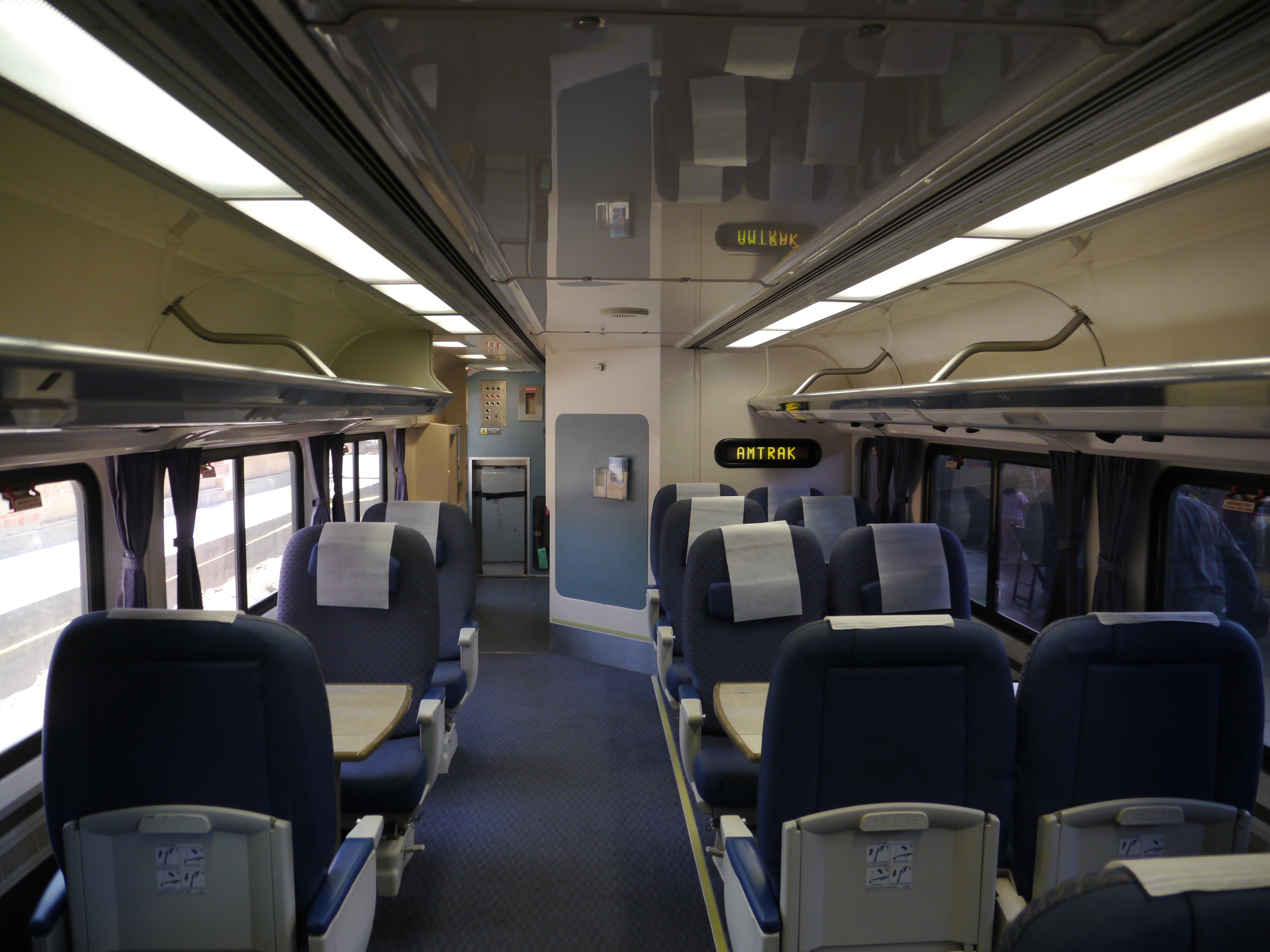 Los Angeles Union Station.